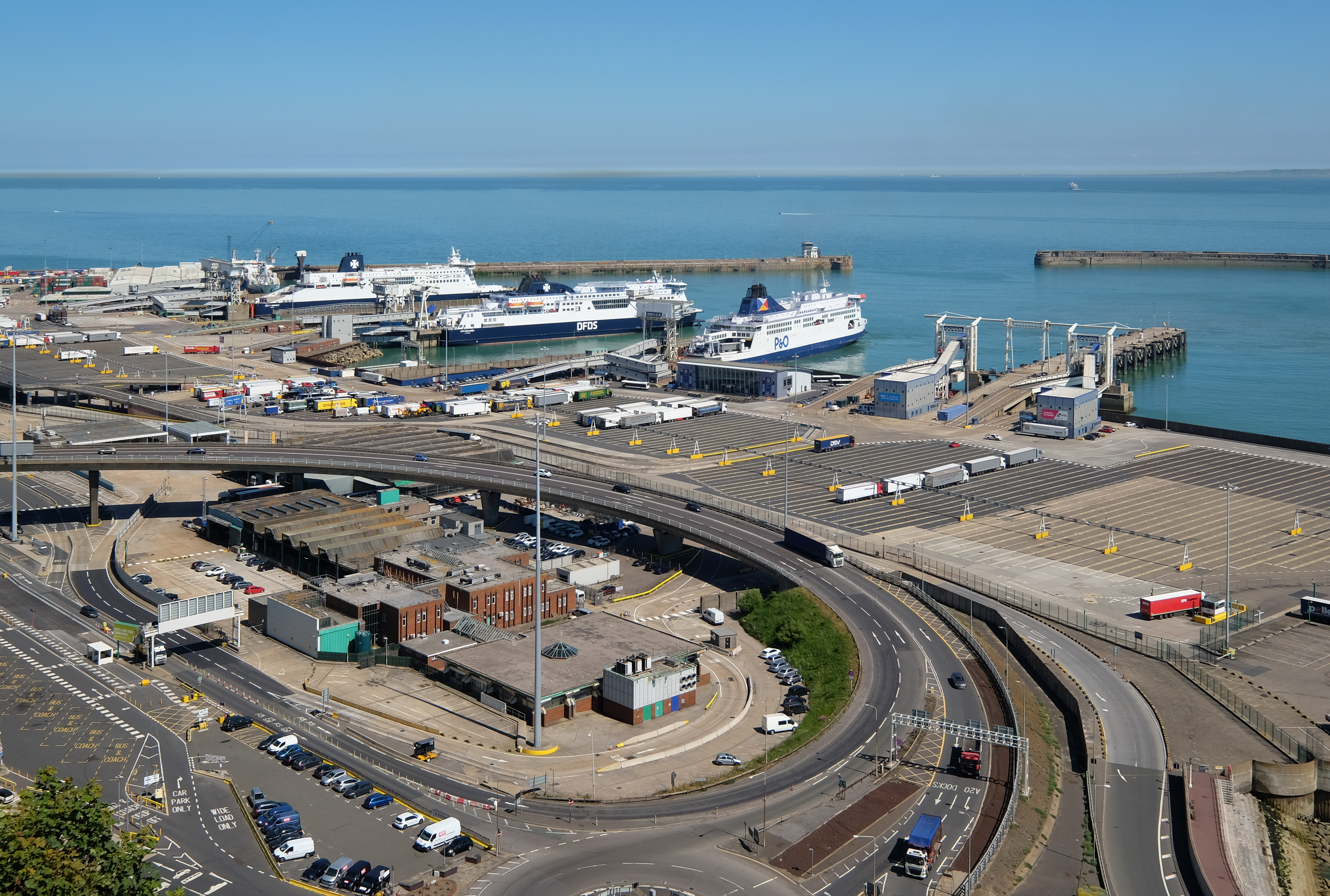 The Eastern Docks in the Port of Dover, England with the coast of France visible the other side on the English Channel on the horizon. This is the busiest cross-channel port and one of the busiest passenger ports in the world.